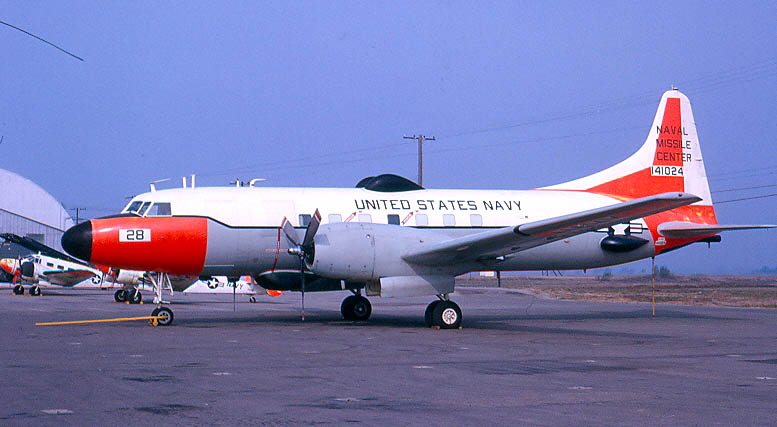 NAS Point Mugu November 1965.